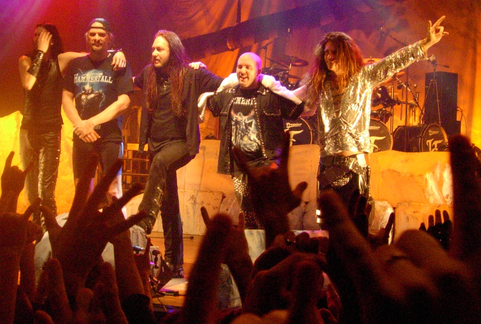 HammerFall, live in Milano, Italy; Nov. 2005